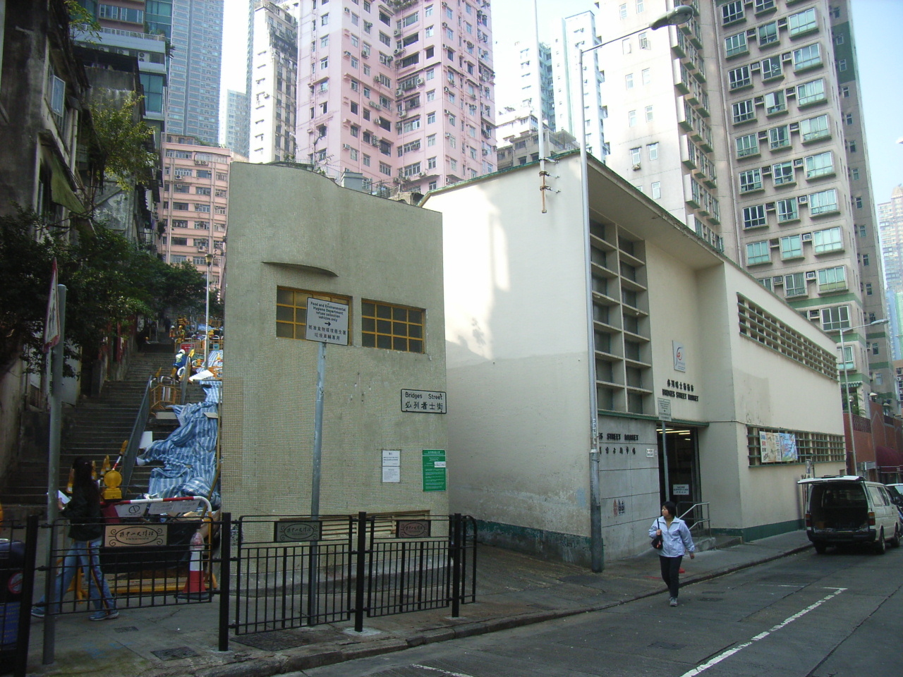 Bridge Street, Sheung Wan, Hong Kong (Photographer & author: User:BITBITSW).